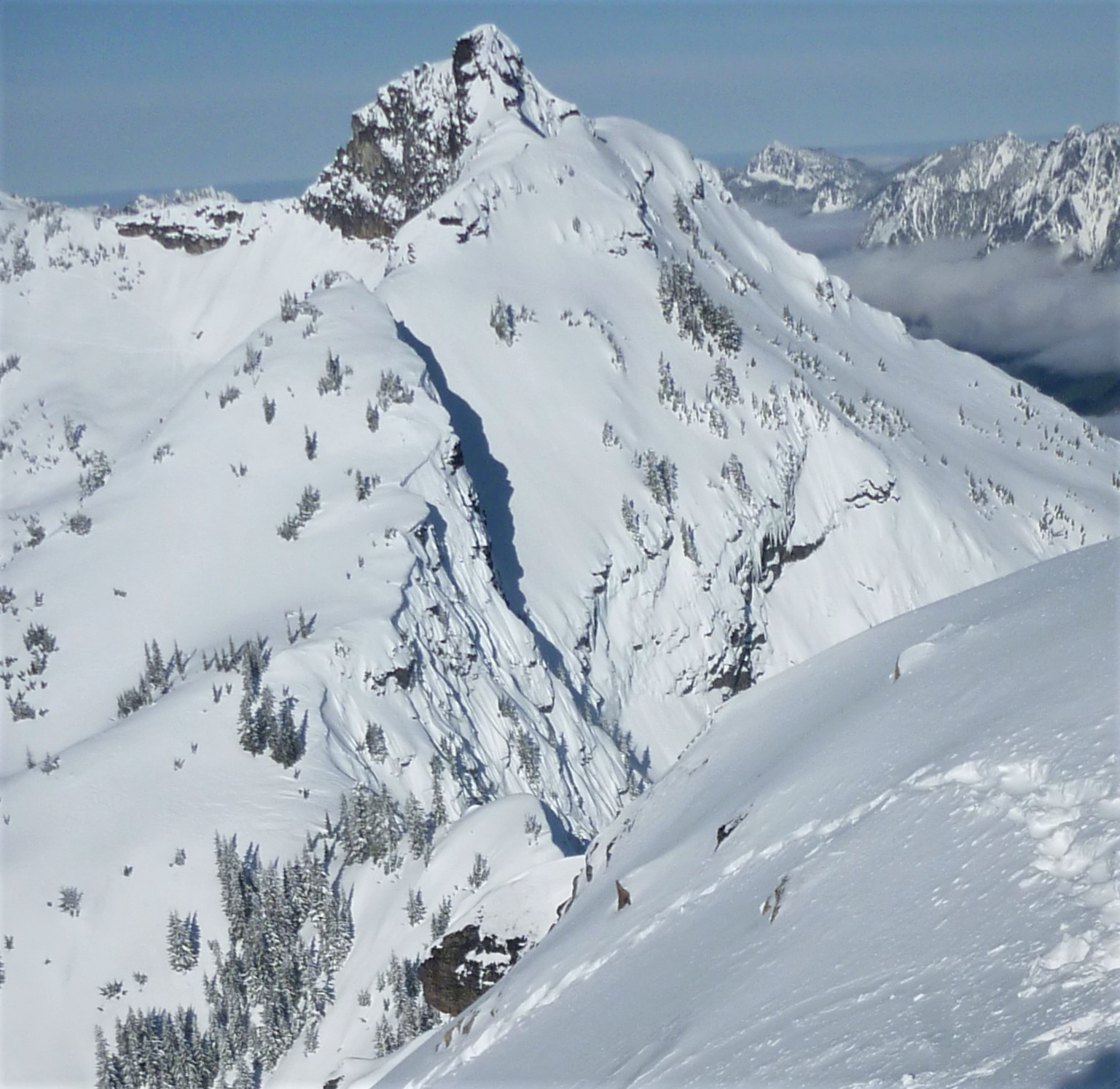 Lundin Peak in winter seen from Red Mountain